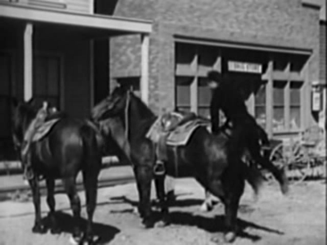 Crupper Mount by Yakima Canutt in Sagebrush Trail (1933)